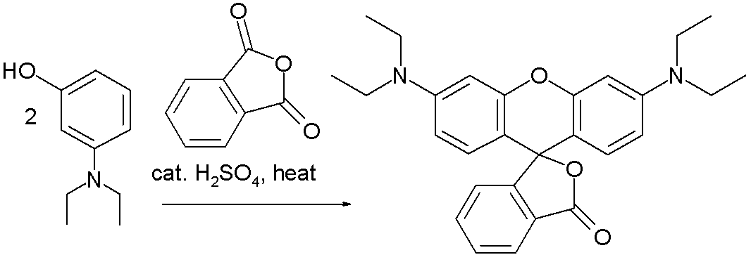 Rhodamine B synthesis